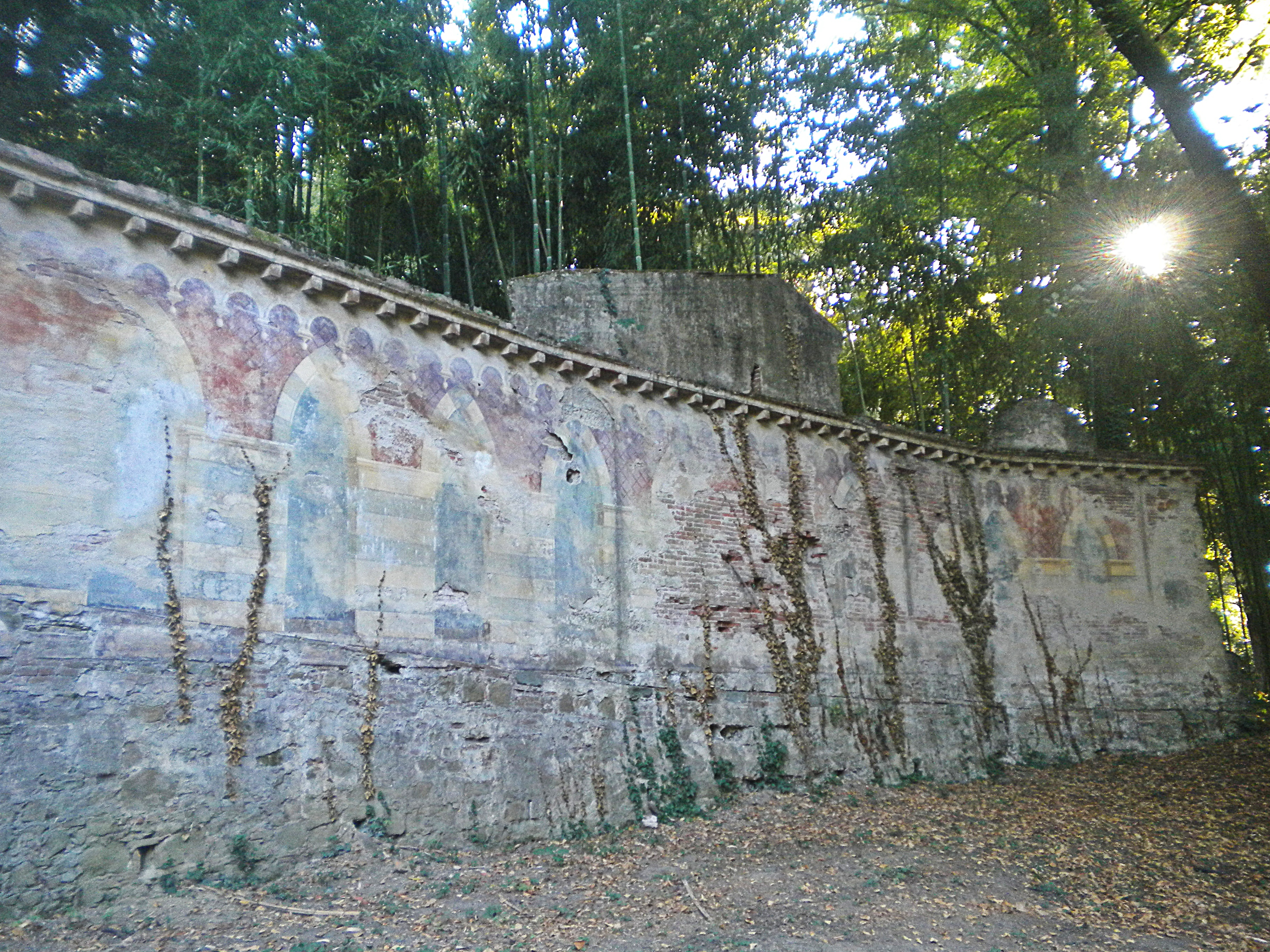 diana temple